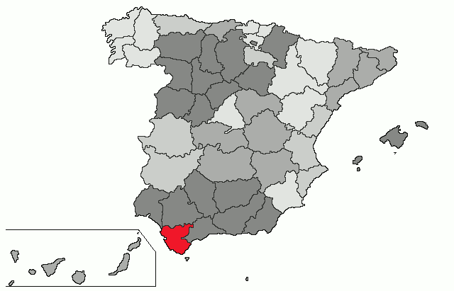 Location of Cádiz province, Spain.